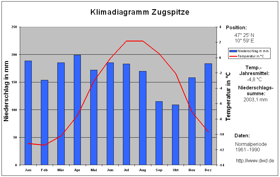 Climate chart of the Zugspitze. Data are average value per month and year between 1961 and 1990.